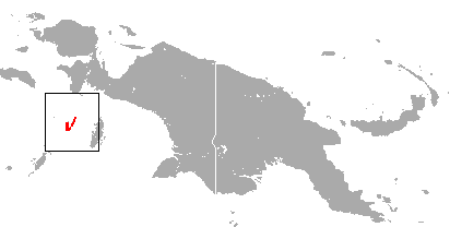 Kei Flying Fox (Pteropus keyensis) range